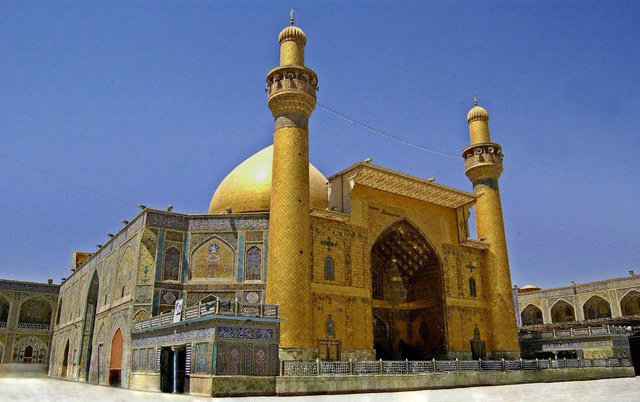 The Sanctuary of Imam Ali ibn Abi Talib in Najaf, Iraq.